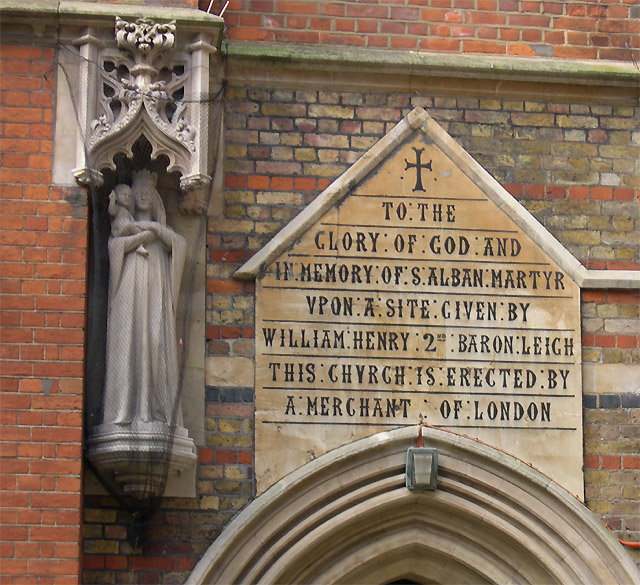 St Alban's Church (detail), Holborn, near to London, City of London, Great Britain. This detail can be seen above the main door, accessed through iron gates in the enclosed area of Brooke Street. A full history of the church can be seen here: Link